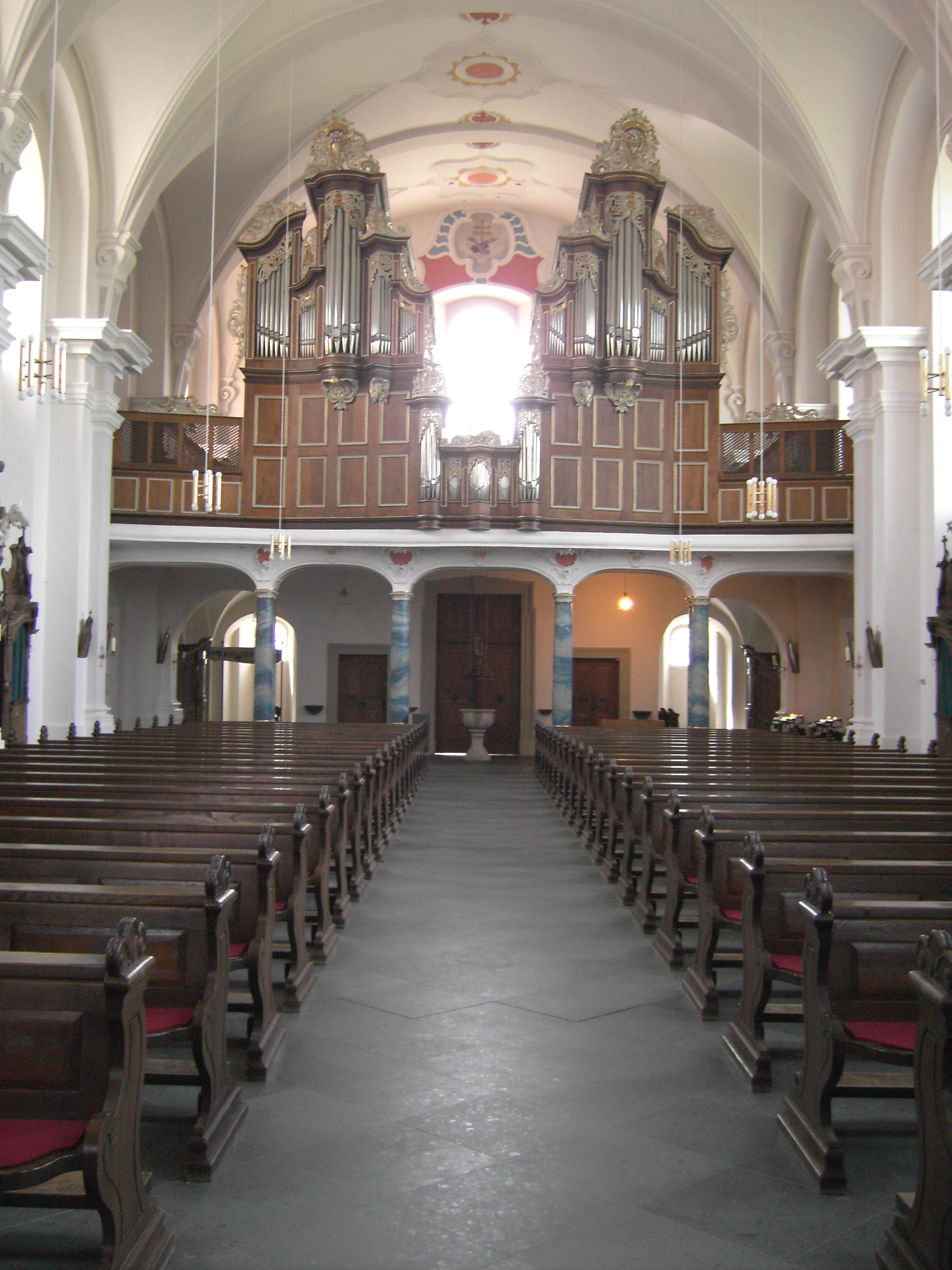 Innenansicht vom Altar aus